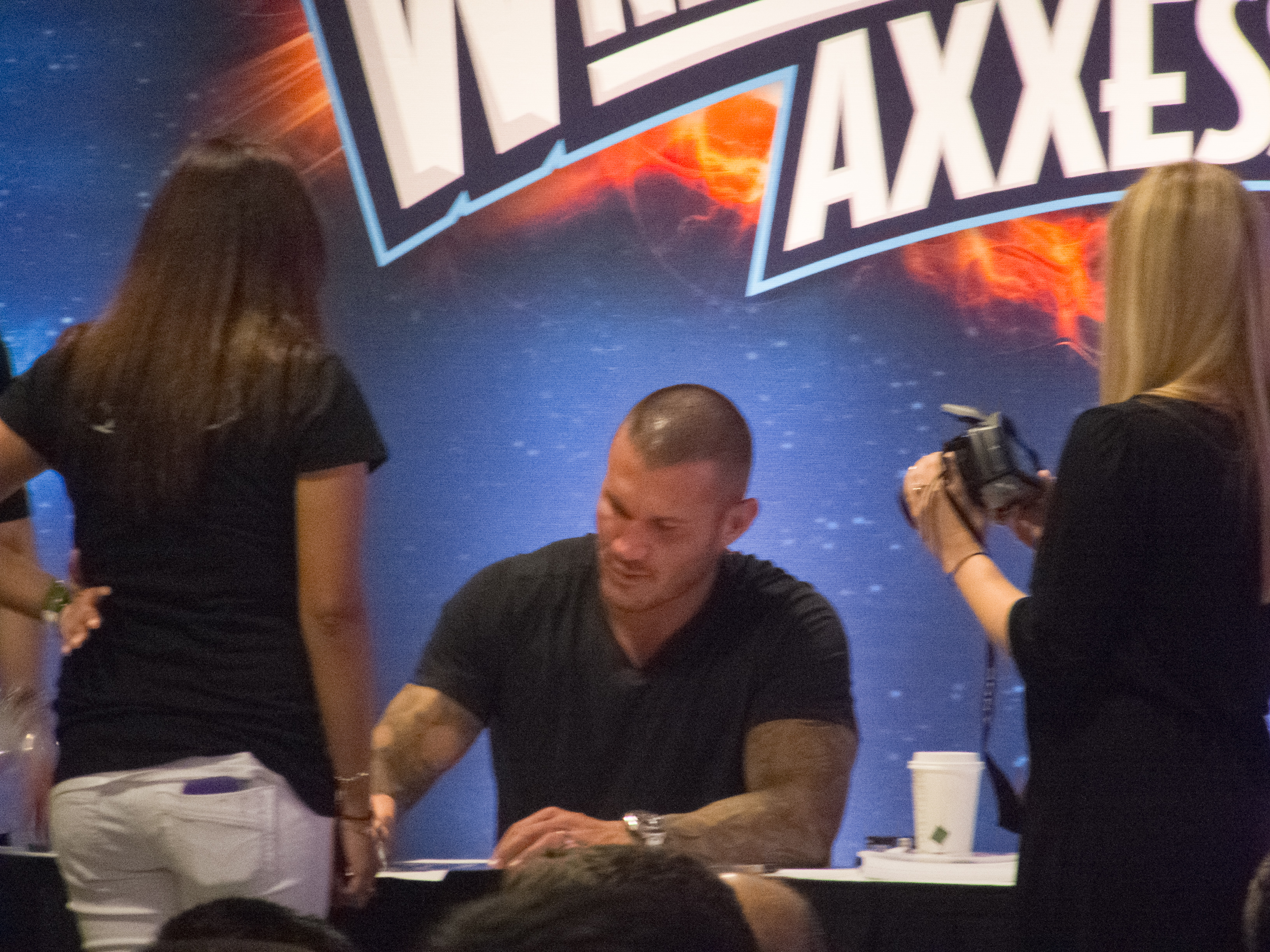 WWE Fan Axxess - Randy Orton